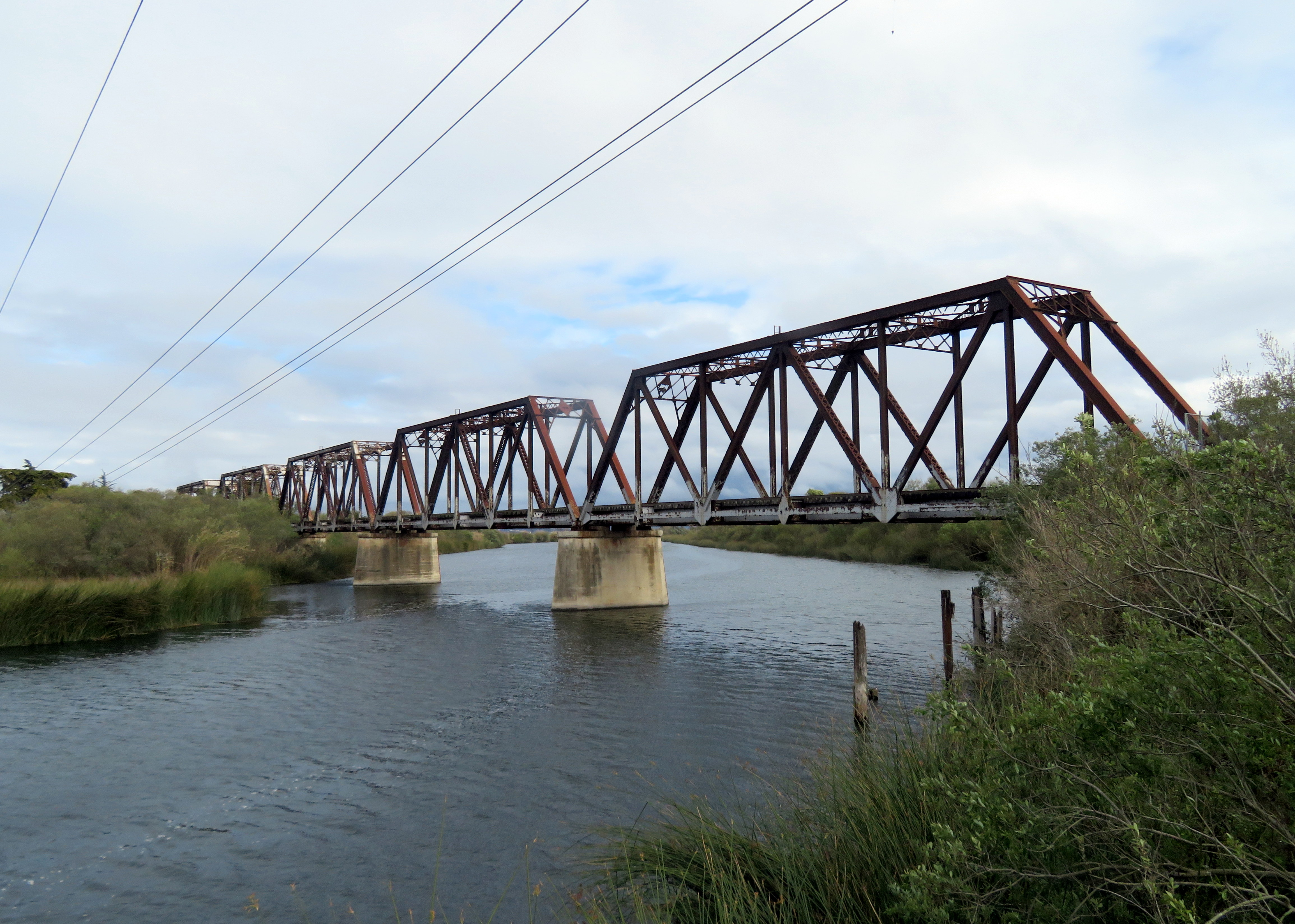 Monterey Branch bridge over the Salinas River, seen in March 2020